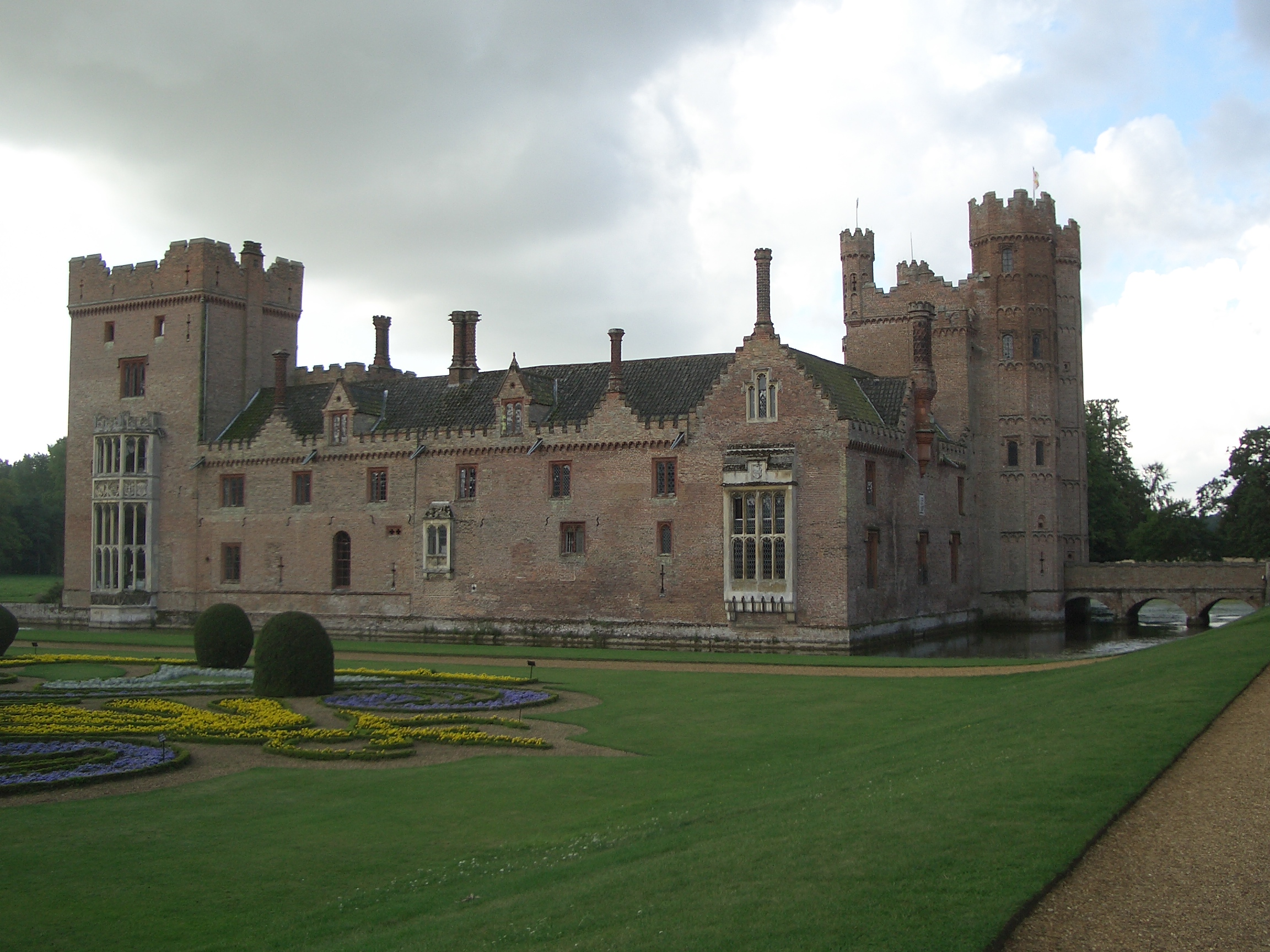 Oxburgh Hall in Norfolk, England.